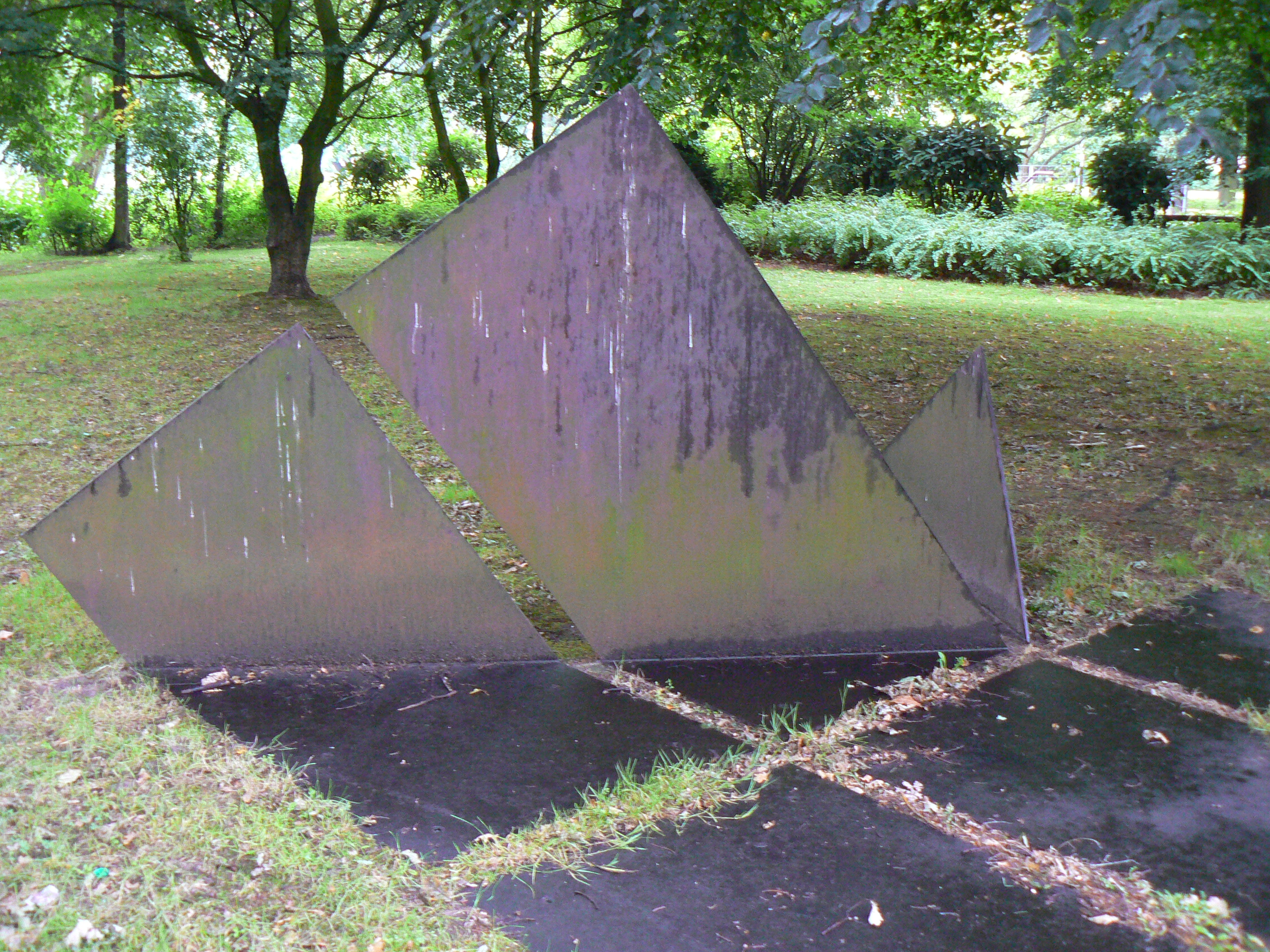 Location:City Center Marl/Germany Collection: Skulpturenmuseum Glaskasten Sculpture: Raumpflug (1983/84) Sculptor: Wilfried Hagebölling